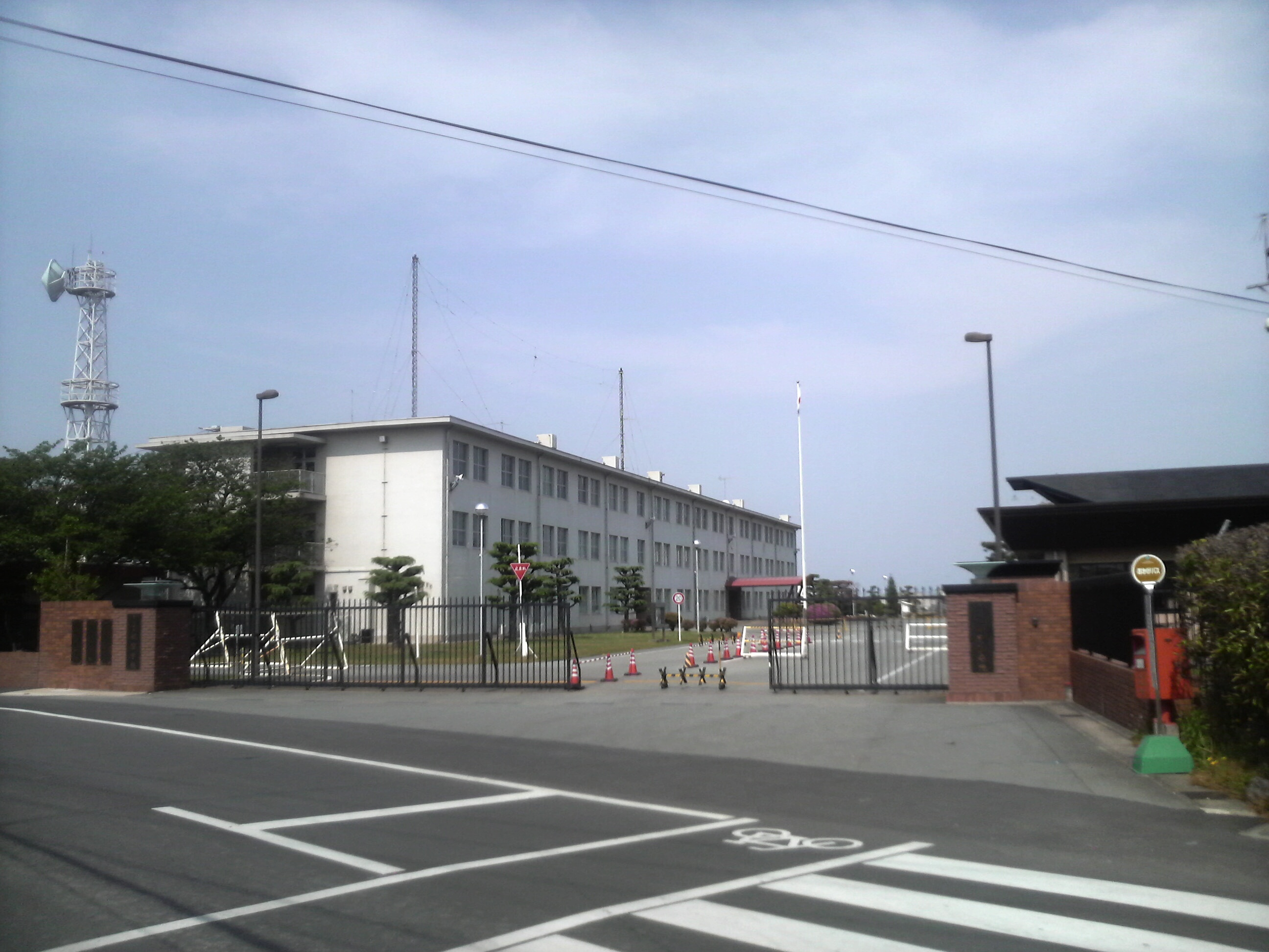 Main gate of JGSDF Camp Akeno in Ise city, Mie prefecture, Japan.